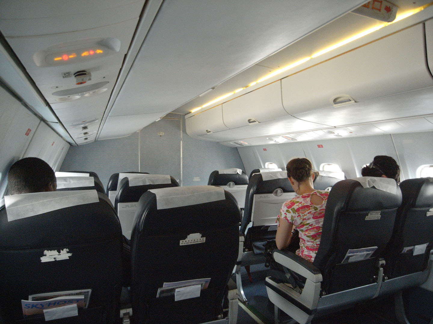 Inside Xian MA60 aircraft(Air Zimbabwe)